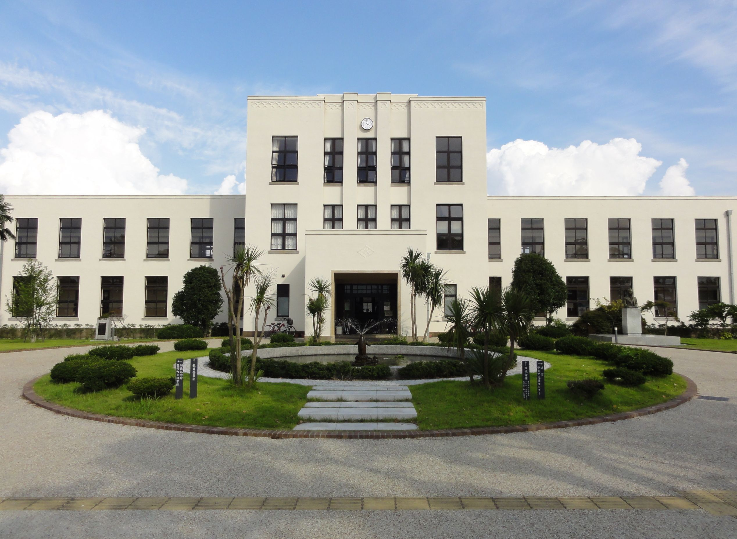 The historic former Toyosato Elementary School in Toyosato, Shiga.